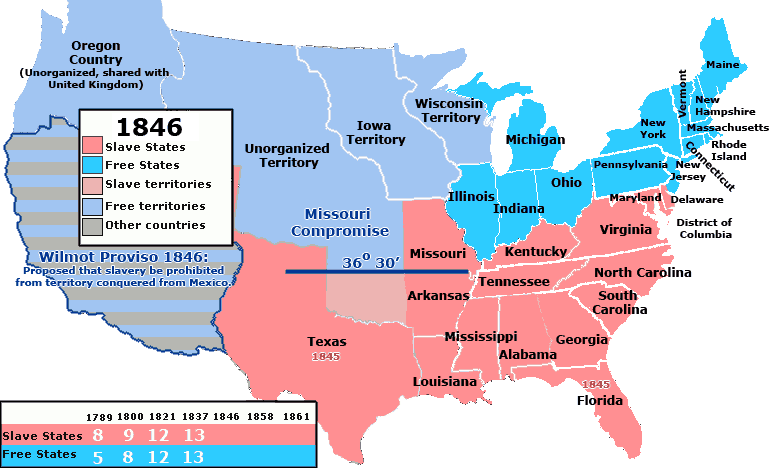 Map showing which areas of the United States did and did not allow slavery under the proposed Wilmot Proviso of 1846. New York (1799) and New Jersey (1804) adopted laws gradually freeing enslaved people, but some people in these states remained enslaved until 1824 (NY) and 1865 (NJ). Territories and states which had not specifically banned slavery are colored red/pink.